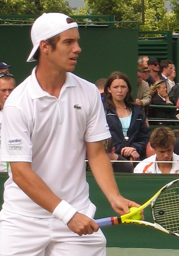 Richard Gasquet at Wimbledon 2007 by Chris Ng